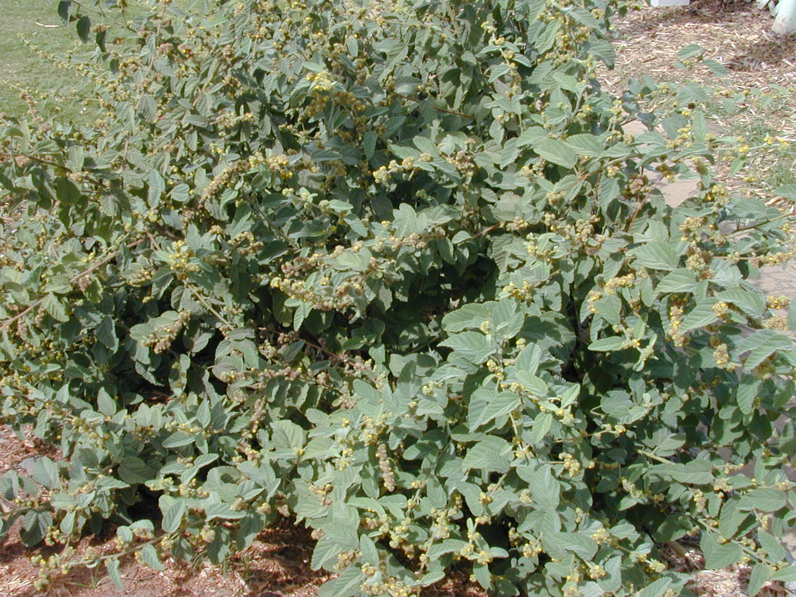 Waltheria indica (habit). Location: Maui, Kalepolepo